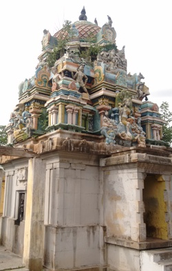 Anniyur agneesvarar temple அன்னியூர் அக்கினீசுவரர் கோயில்